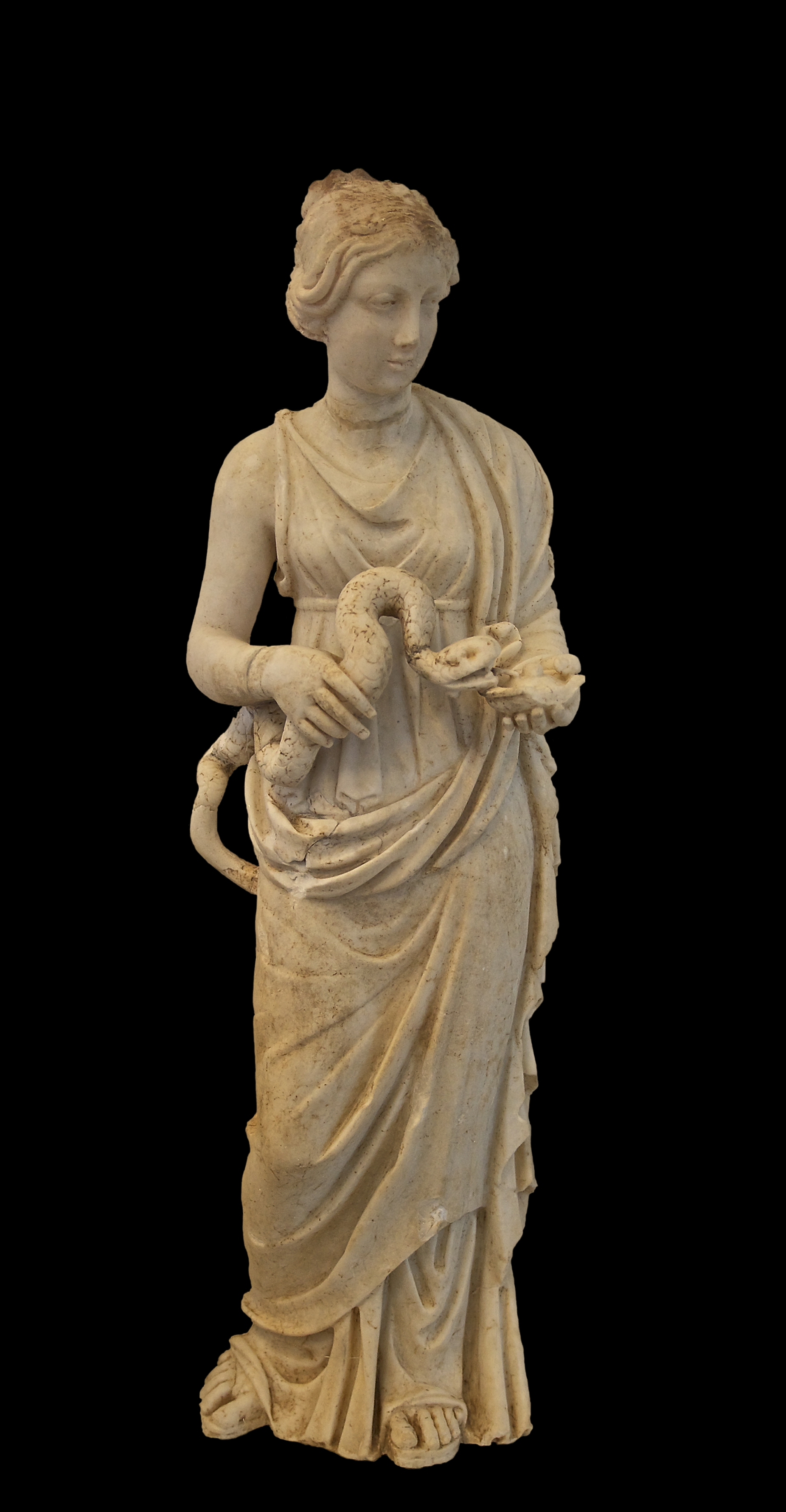 Small statue of Hygieia. Mid-2nd century C.E.